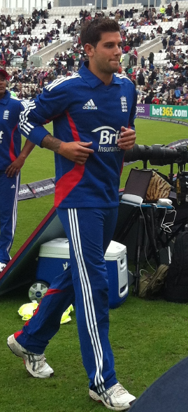 England cricketer Jade Dernbach